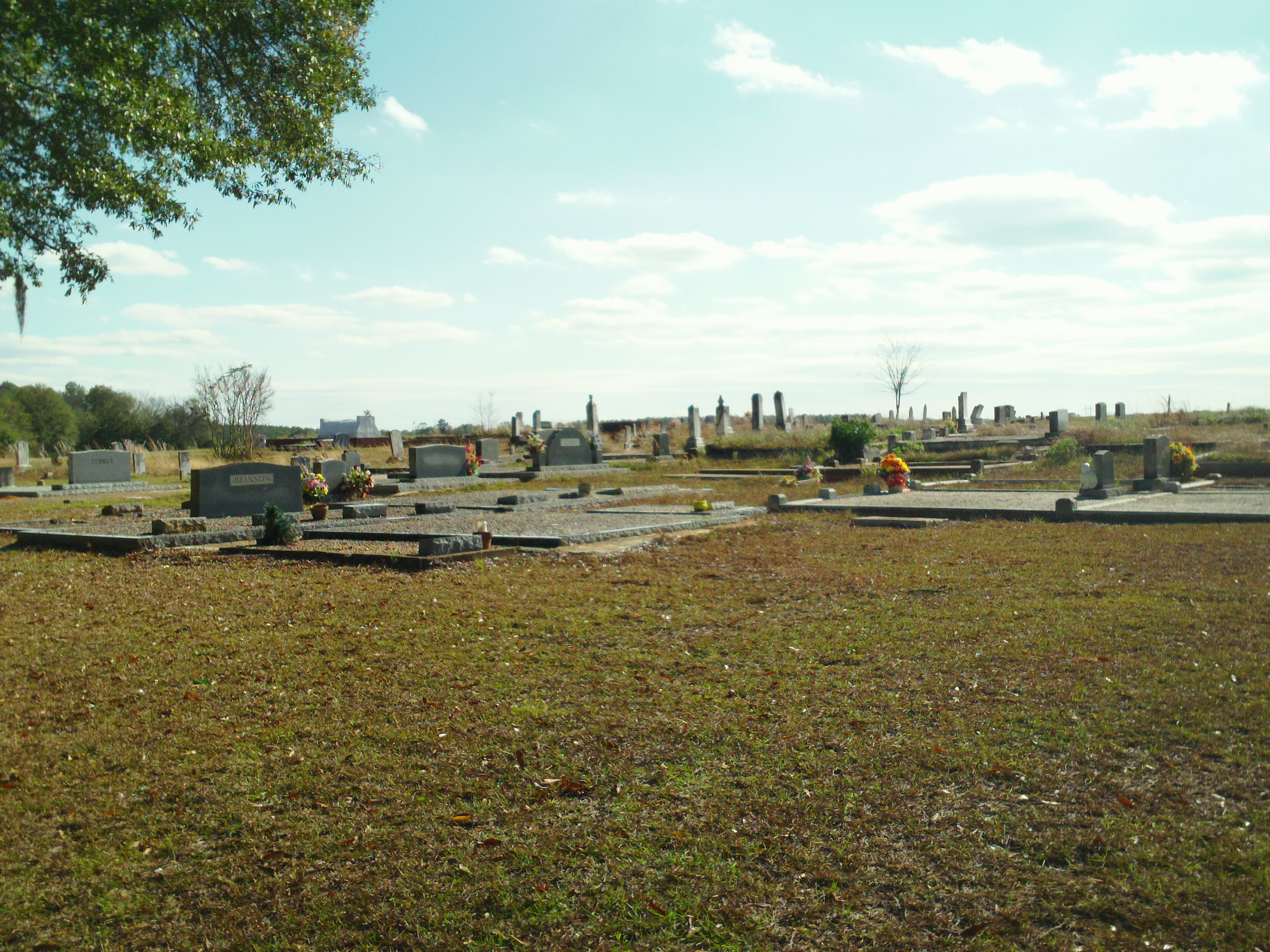 Overview